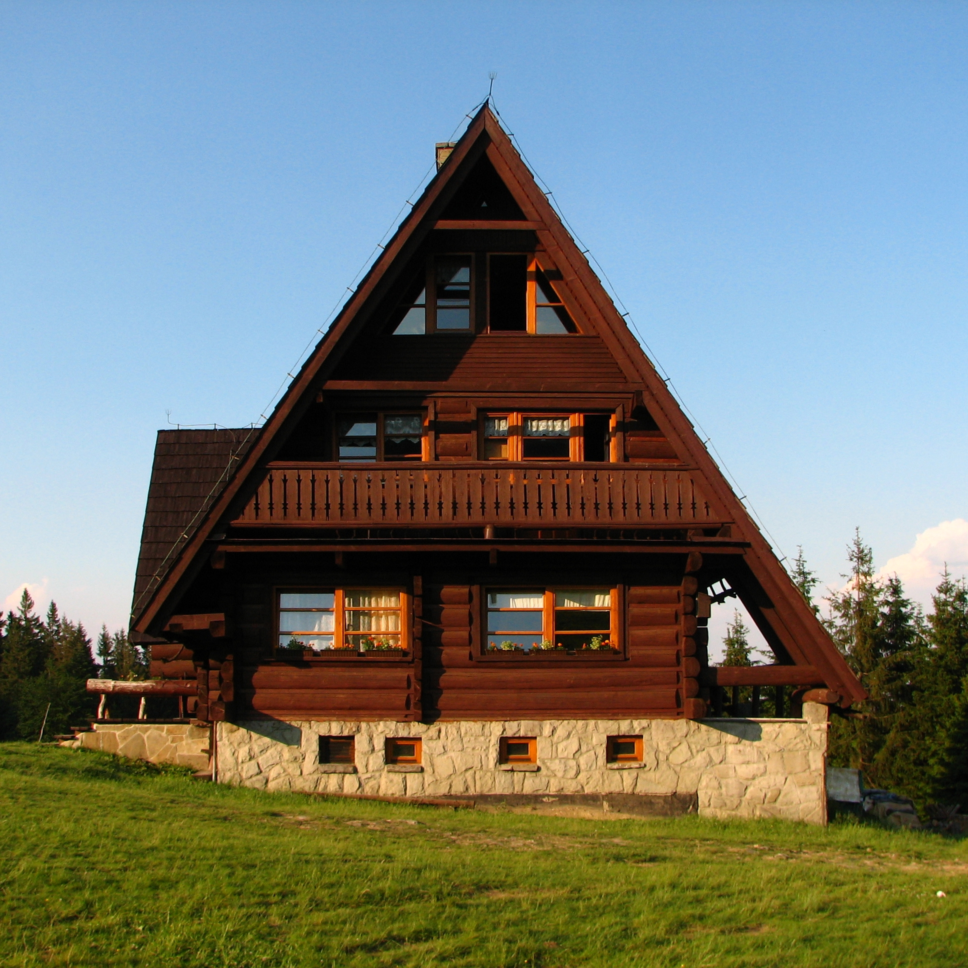 hostel in Hala Rycerzowa, Poland